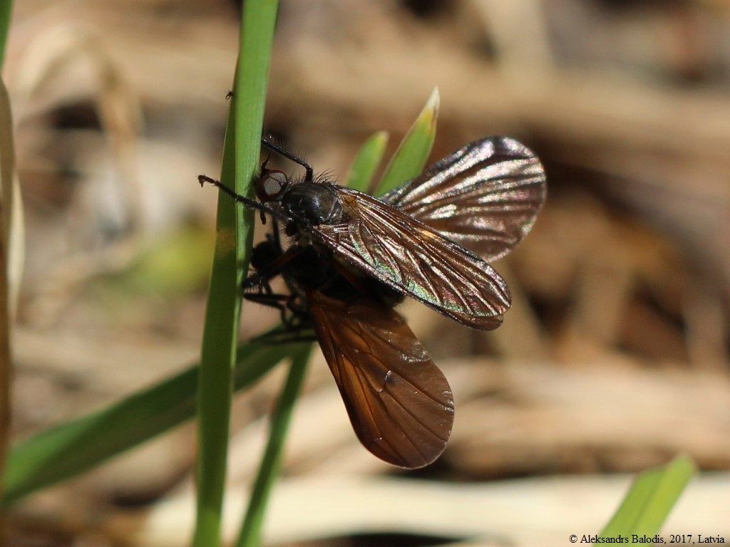 Empis borealis